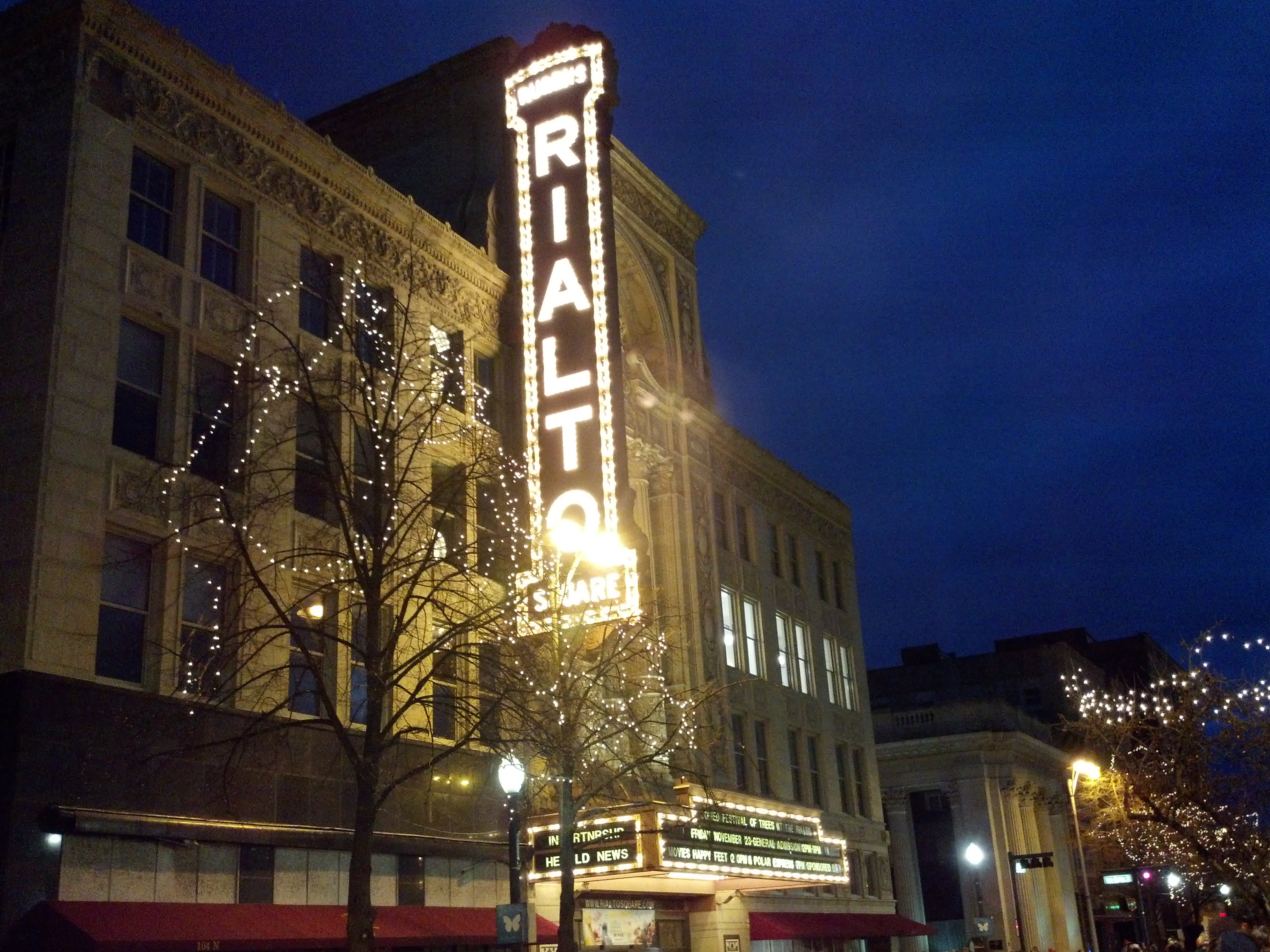 A photograph of the iconic Rialto Square Theatre building in Joliet, IL, taken on 23 November 2012, directly prior to the Light Up the Holidays parade.